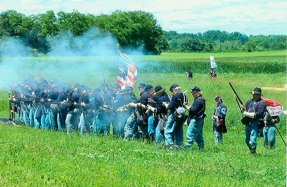 Alexander, NY: Union infantry firing.